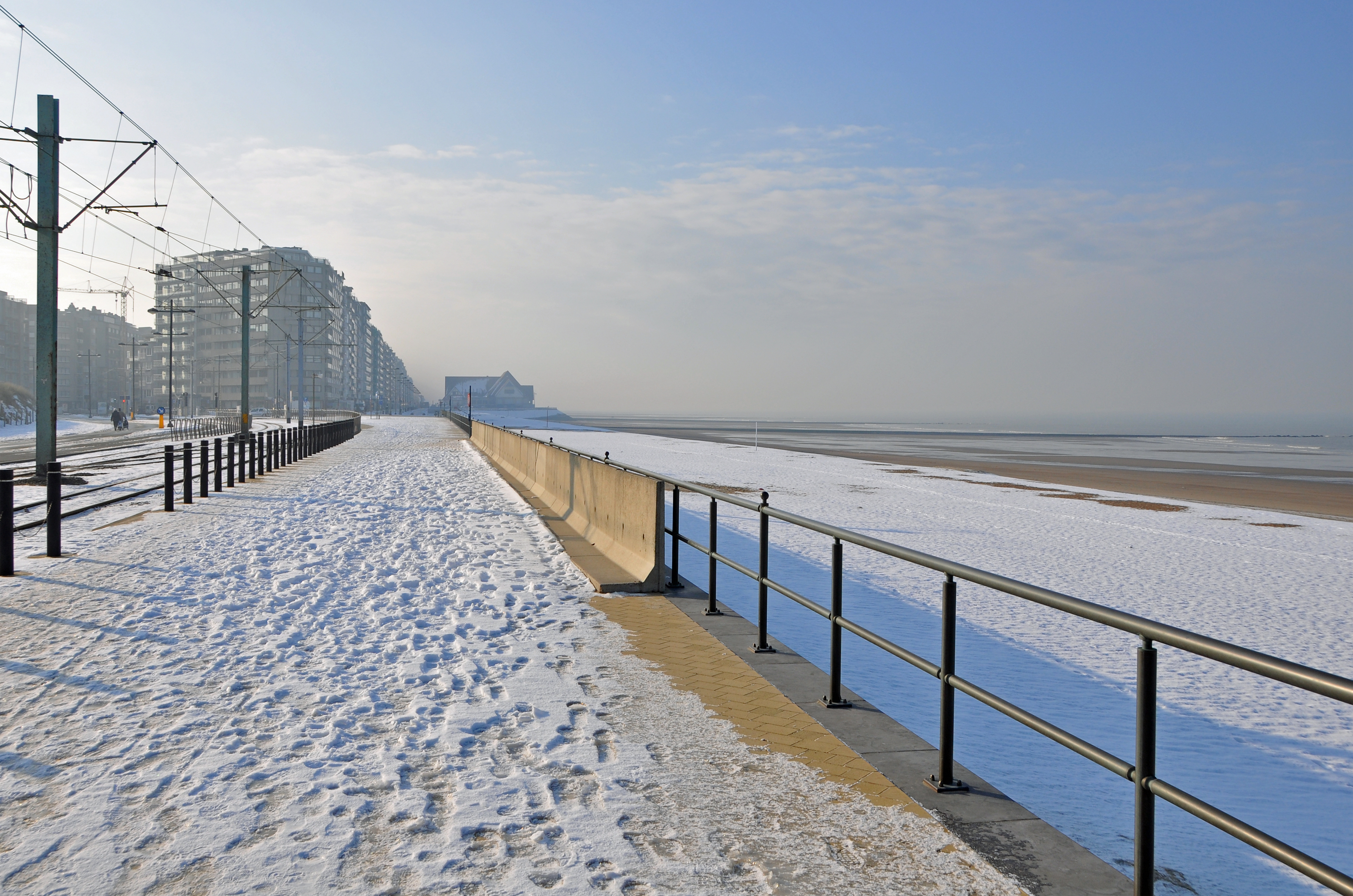 Middelkerke (Belgium): the seawall in winter